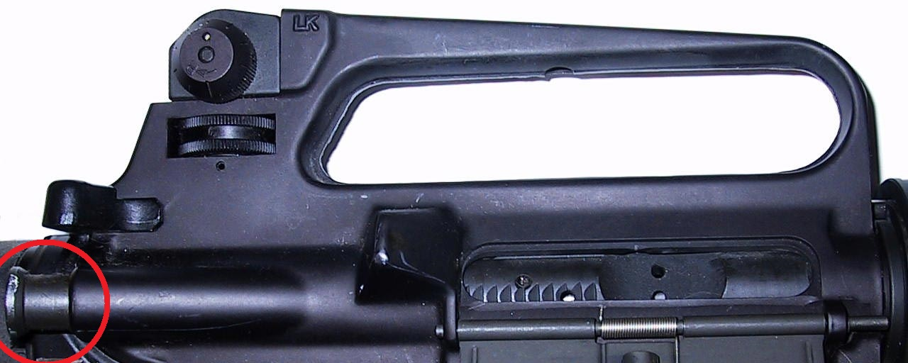 Forward assist of the M-16 highlighted in red